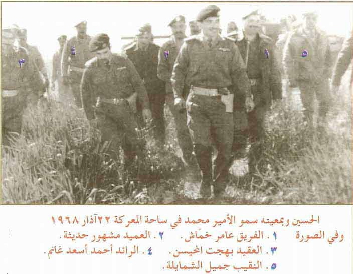 King Hussein of Jordan, in the company of Bahjat Al Muhaisen and others, inspects the positions of the Hittin Brigade following the day of the Battle of Karameh in 1968.